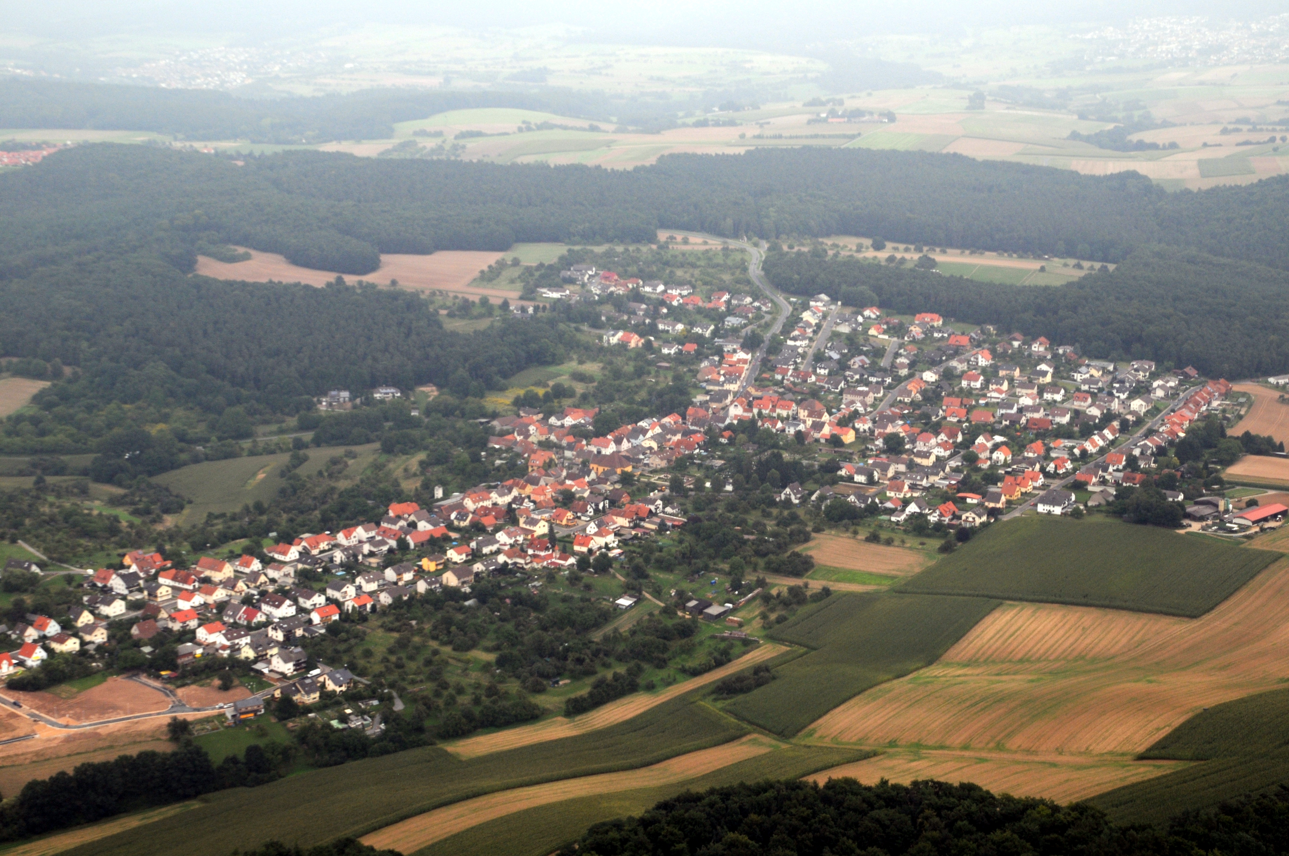 Mechenhard, Erlenbach am Main, Bavaria, Germany, aerial photograph